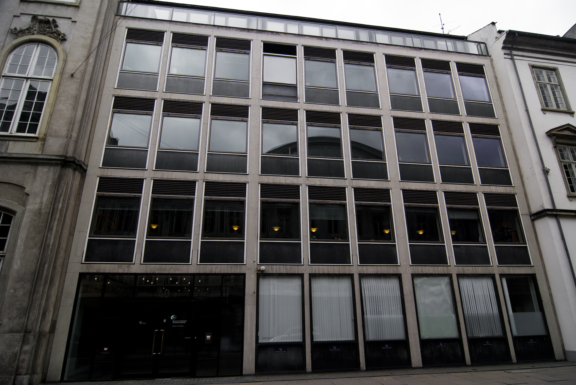 The Danish Ministry of Science, Technology and Developement (da: Ministeriet for Videnskab, Teknologi og Udvikling). This photo was uploaded as a part of an conceptual idea: FindVej NoPic.